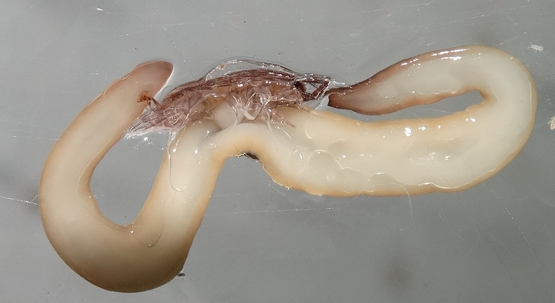 Ventral view of a specimen of Luteostriata abundans eating a woodlouse